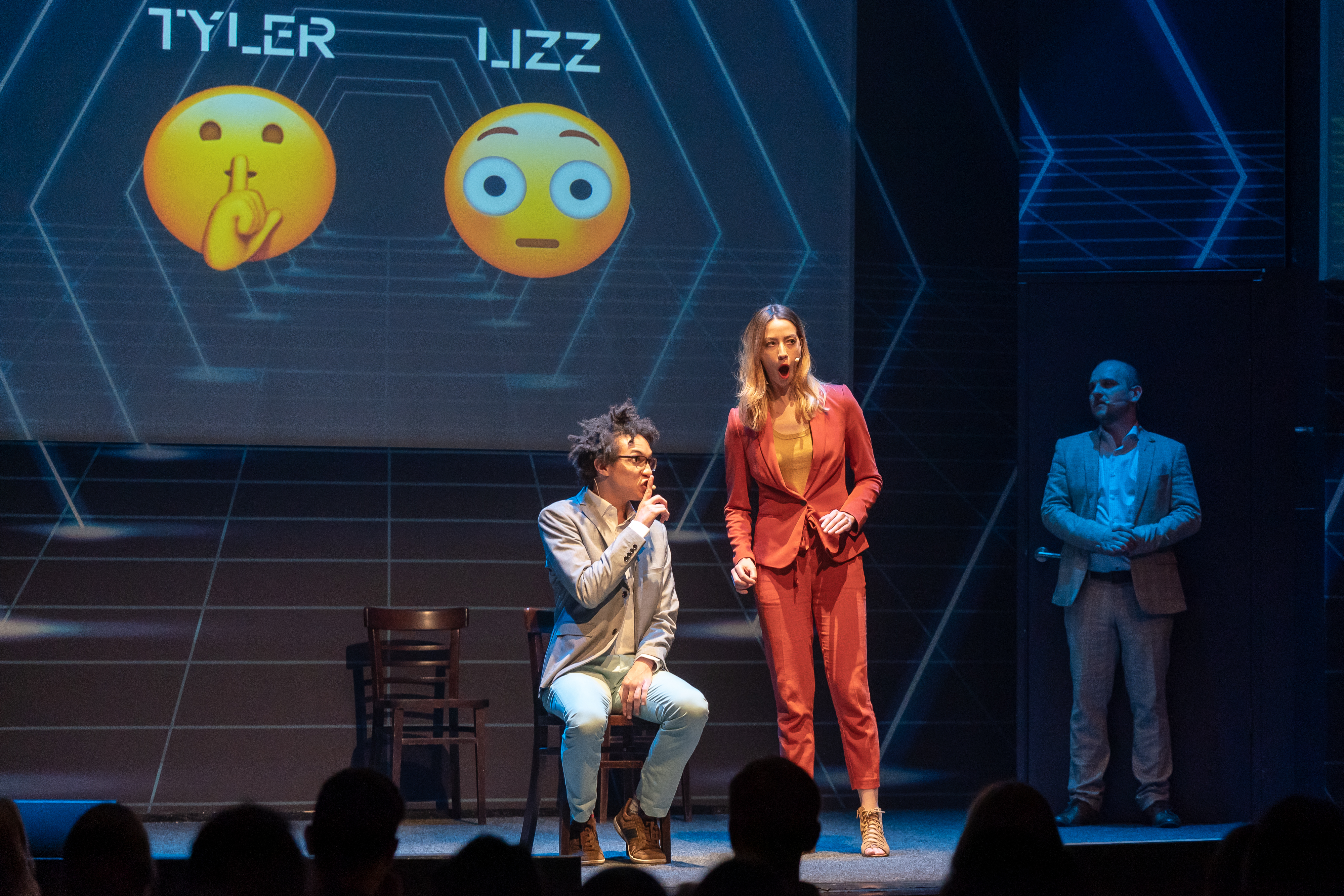 Tyler Groce and Lizz Kemery improvise on stage in 2019